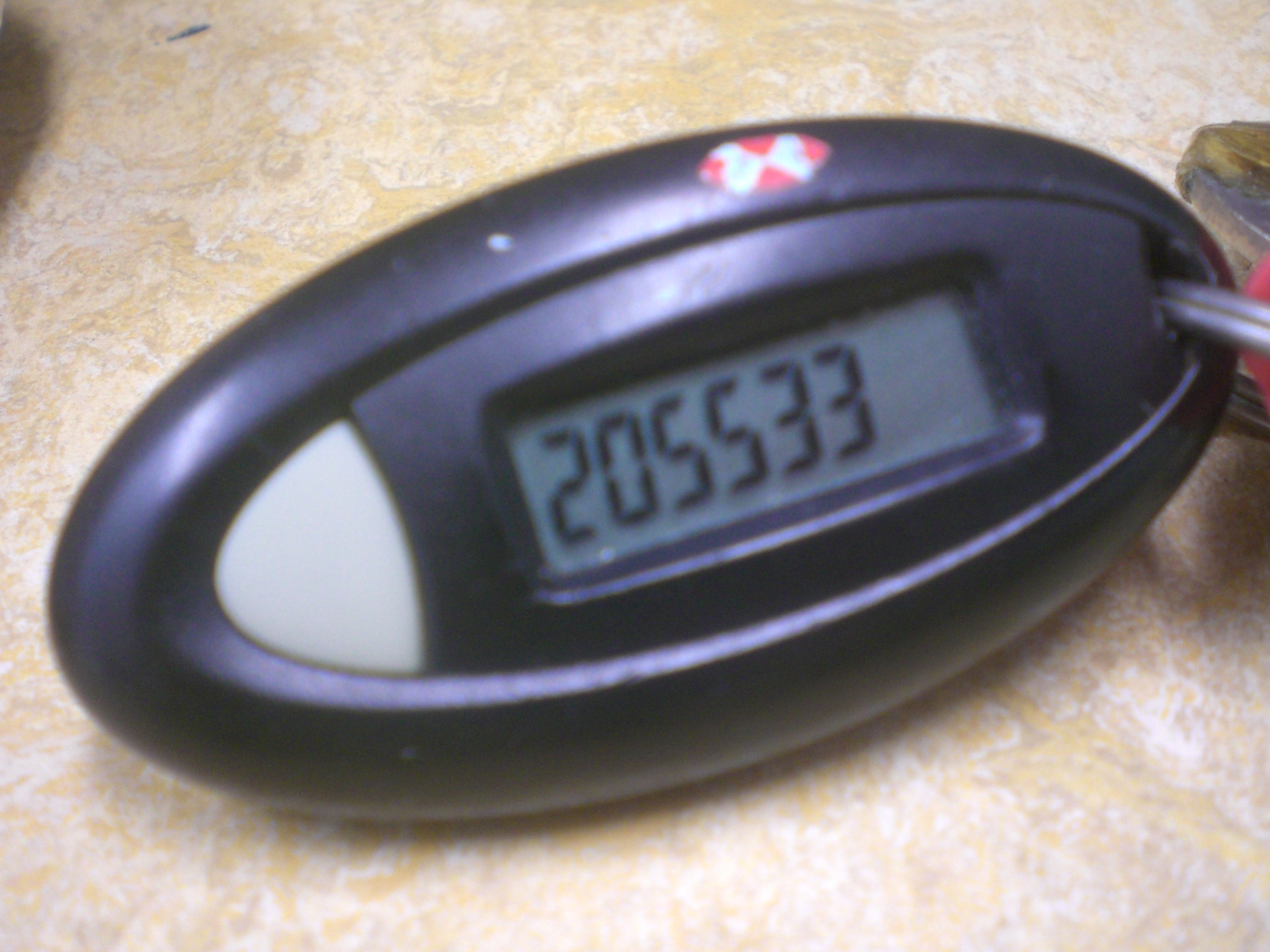 The Hongkong and Shanghai Banking Corporation code bar.